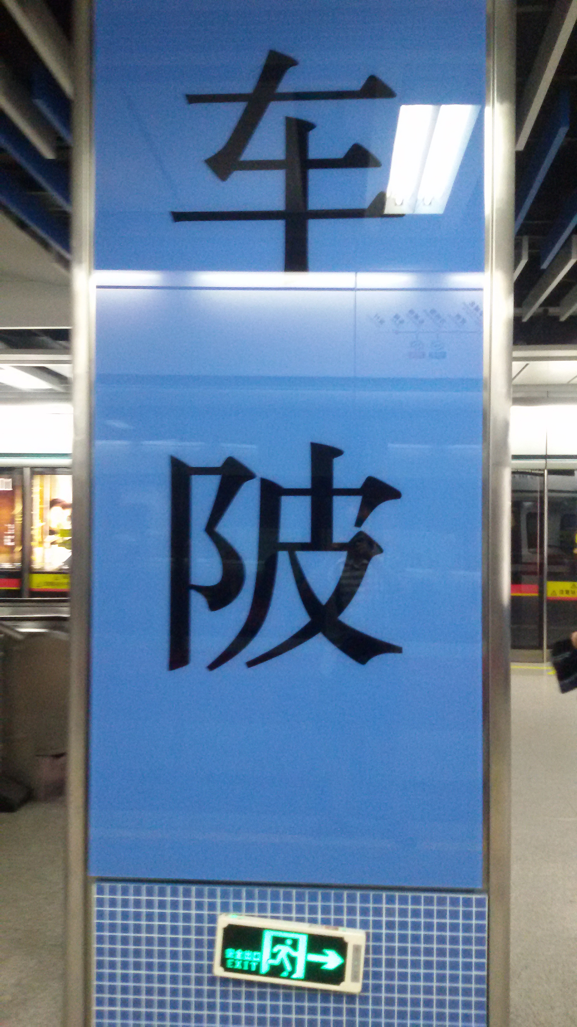 WORD on PILLAR for Chebei Station in Guangzhou Metro 粵語: 廣州地鐵，車陂站嘅柱上面啲字。